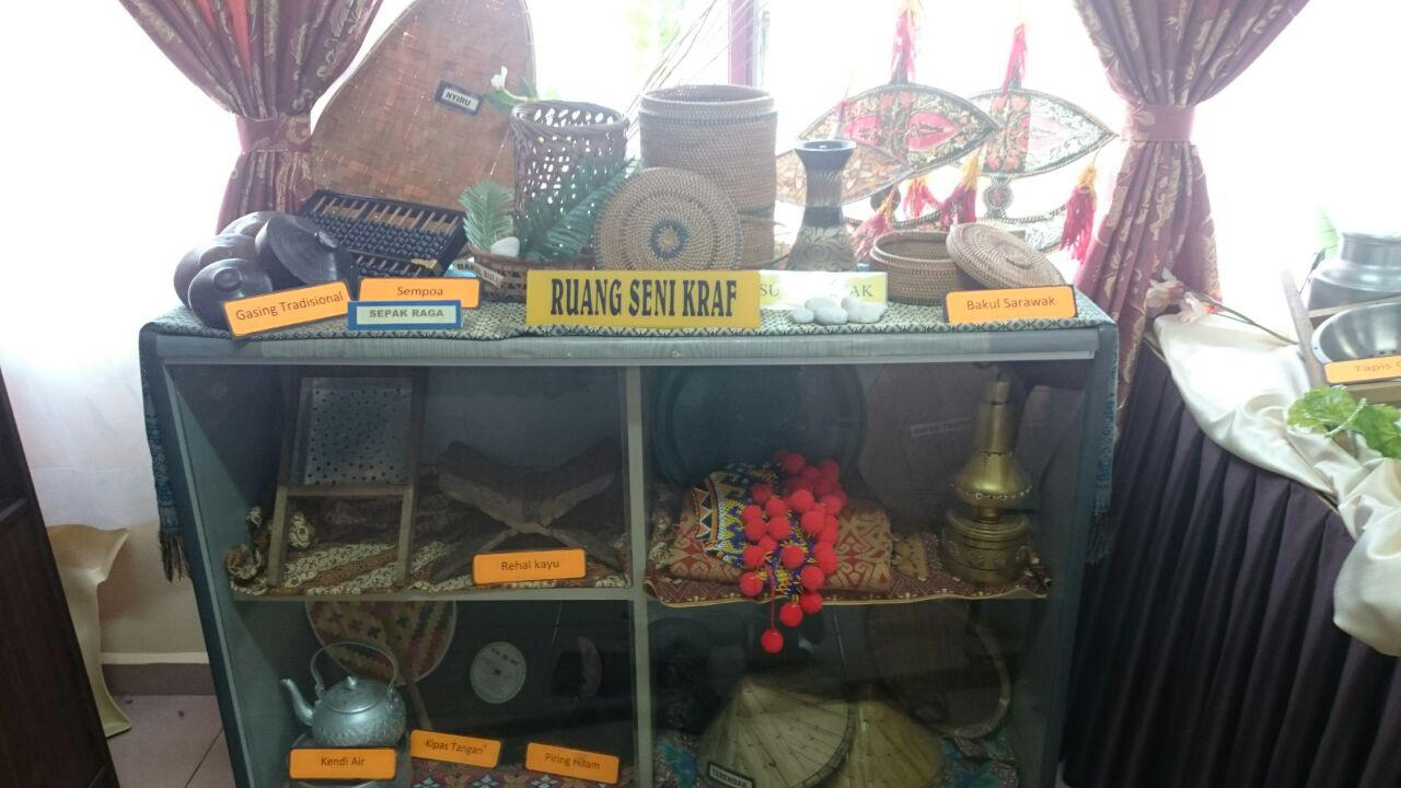 ruang seni kreatif in loby